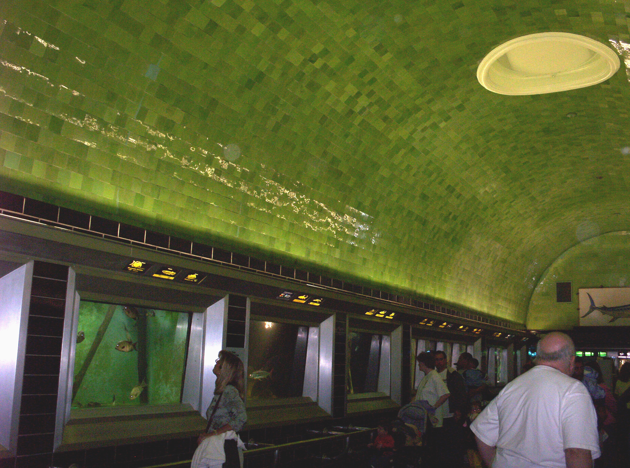 Interior of Belle Isle Aquarium, Detroit, Michigan, taken five days before scheduled closing of oldest aquarium building in the U.S.